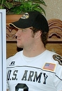 East team defensive lineman Marvin Austin (left) and West team linebacker Chris Galippo present a check for $1,000 to children of the Warm Springs Rehabilitation Center in San Antonio, Texas. East and West teams will meet Jan. 7 in the nationally broadcast Army-sponsored All-American Bowl at the Alamodome.